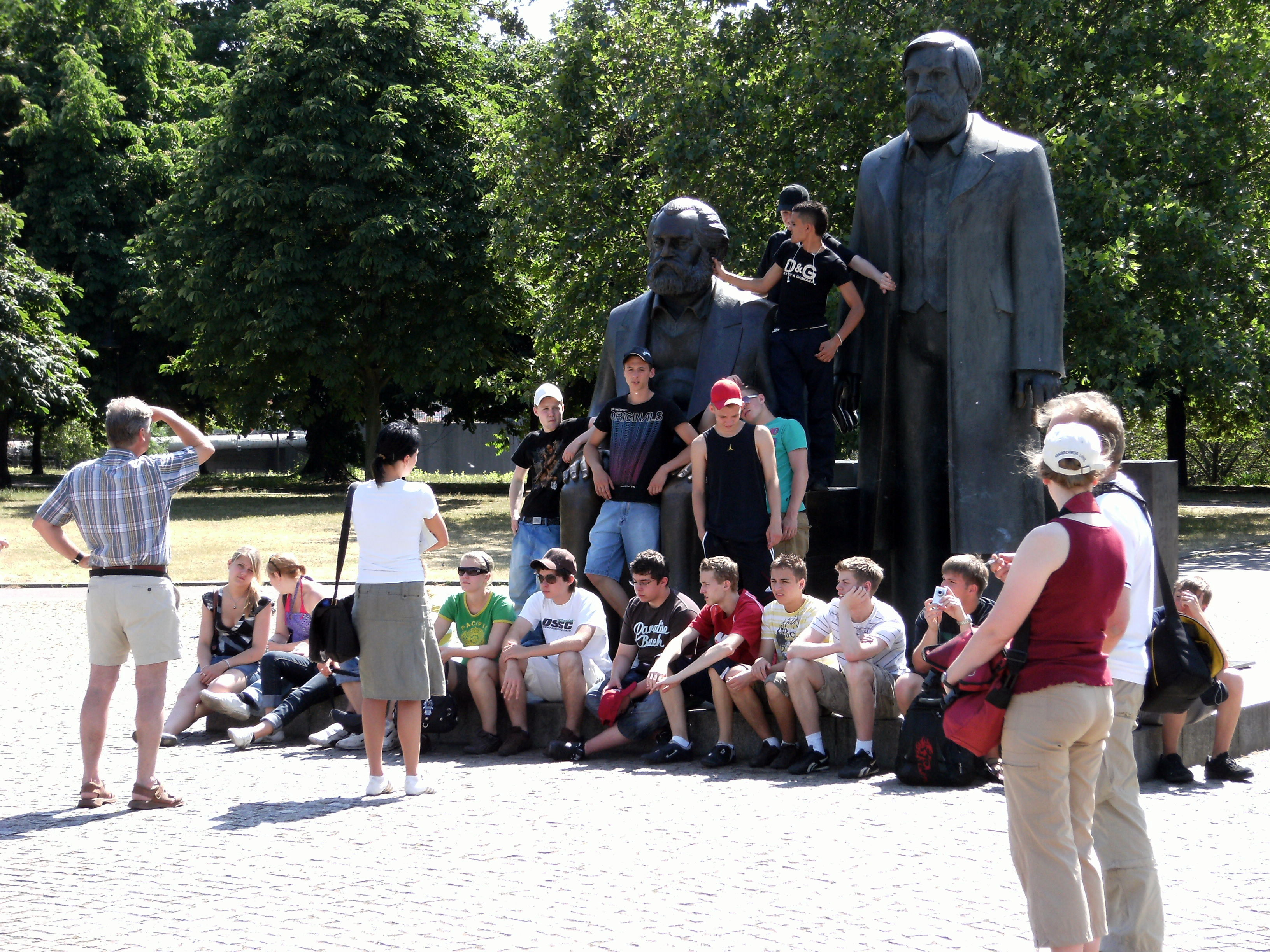 Berlin, june 2008